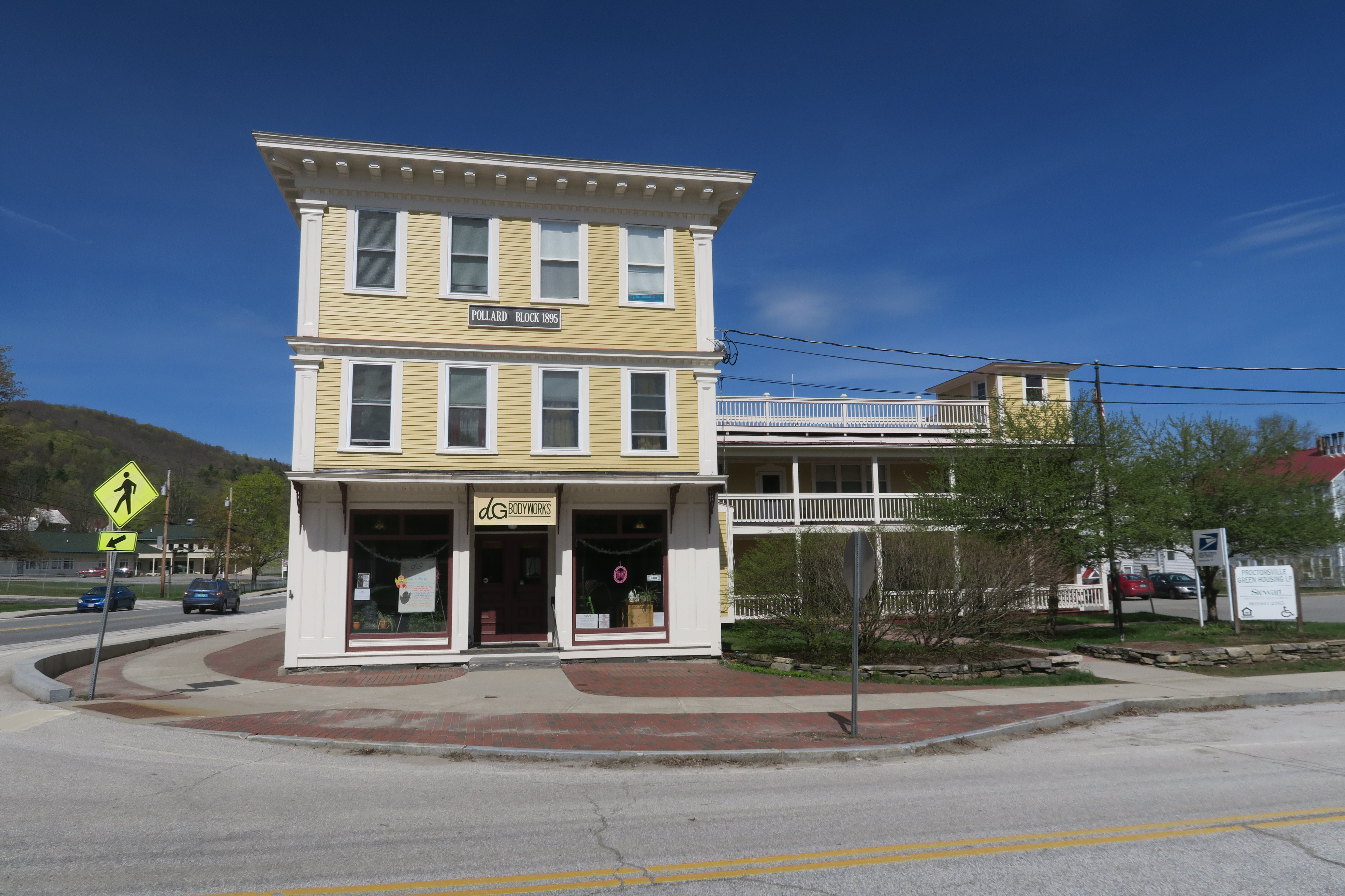 Pollard Block, Proctorsville Vermont